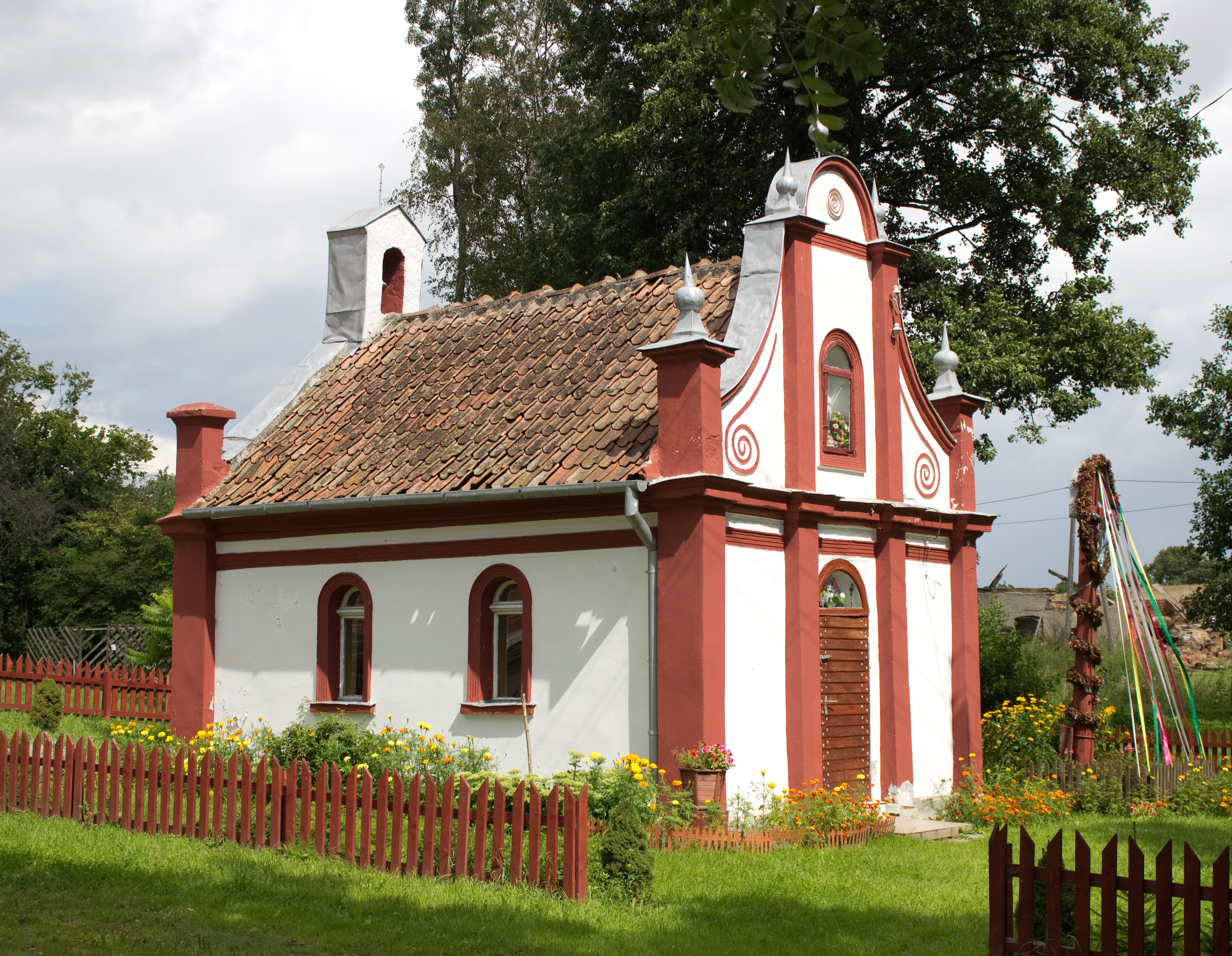 Chapel, Kominki, gmina Kolno, powiat olsztyński, Warmian-Masurian Voivodeship